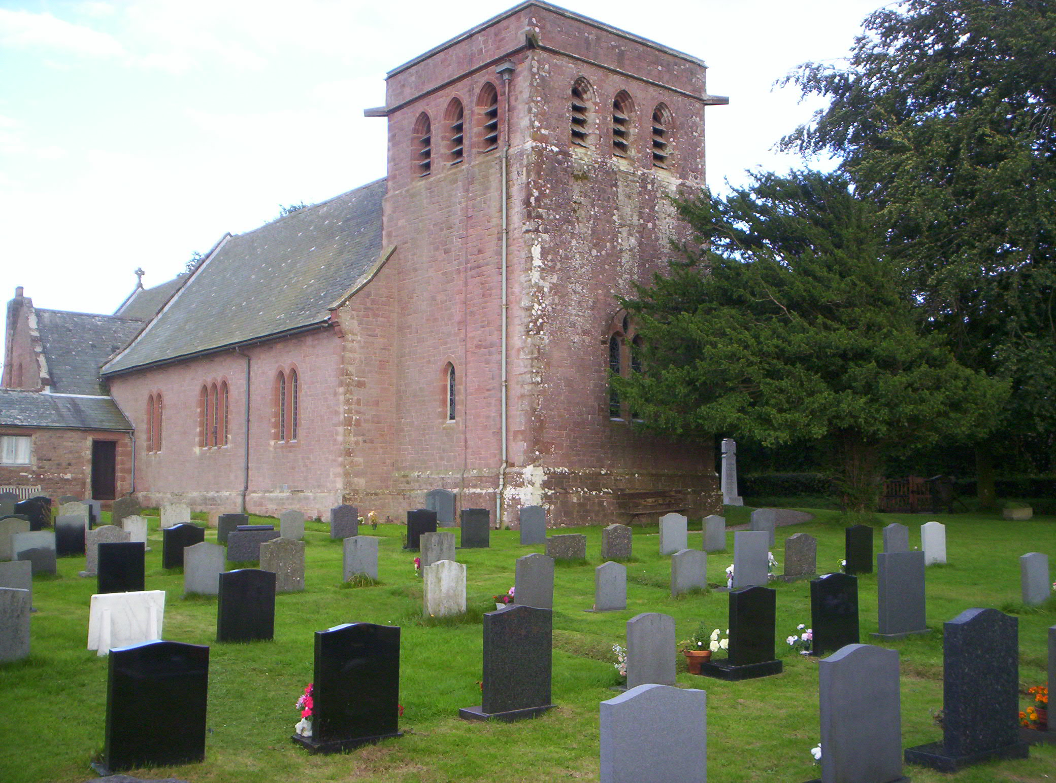 All Saints' parish church, Allhallows, Cumbria, seen form the west